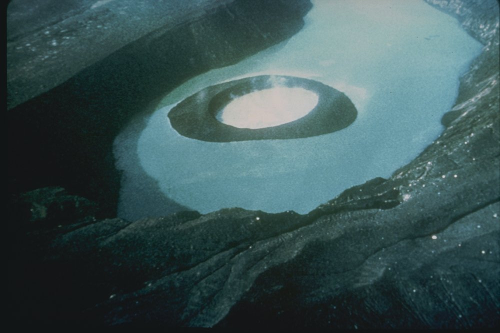 The cinder cone on the crater created by the phreatomagmatic eruption of Taal Volcano in 1965. The crater was eventually filled by the lava flows from the eruptions of 1968 and 1969.